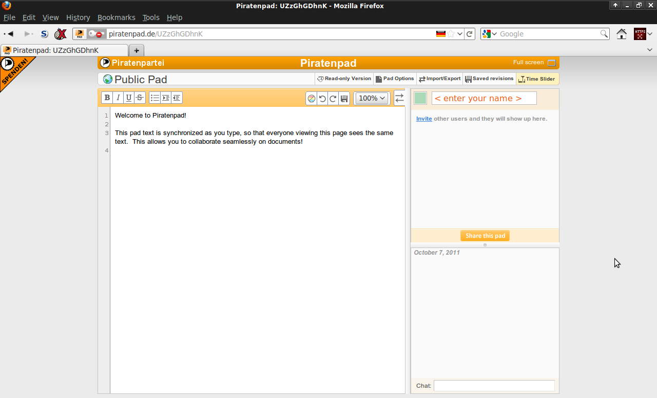 Etherpad Pro running on piratenpad.de by the Pirate Party Germany under Ubuntu Linux 10.04 with Firefox 7.0.1